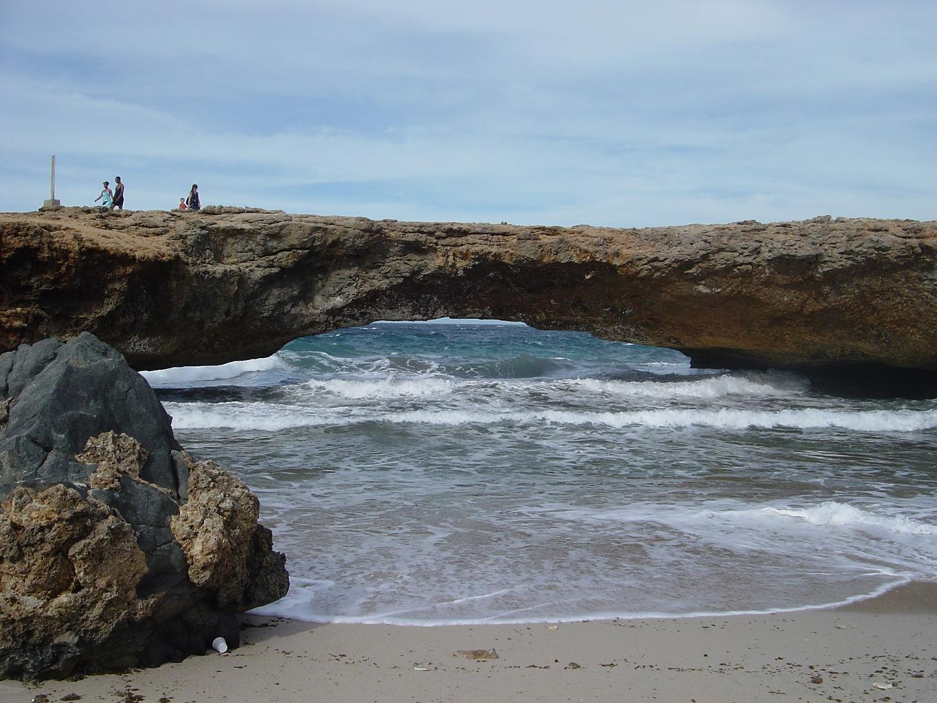 The Natural Bridge in Aruba in July 2005, few months before it collapsed because of erosion